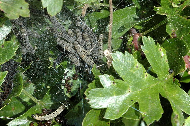 Picture taken in Commanster, Belgian High Ardennes . Species: Yponomeuta padella caterpillars